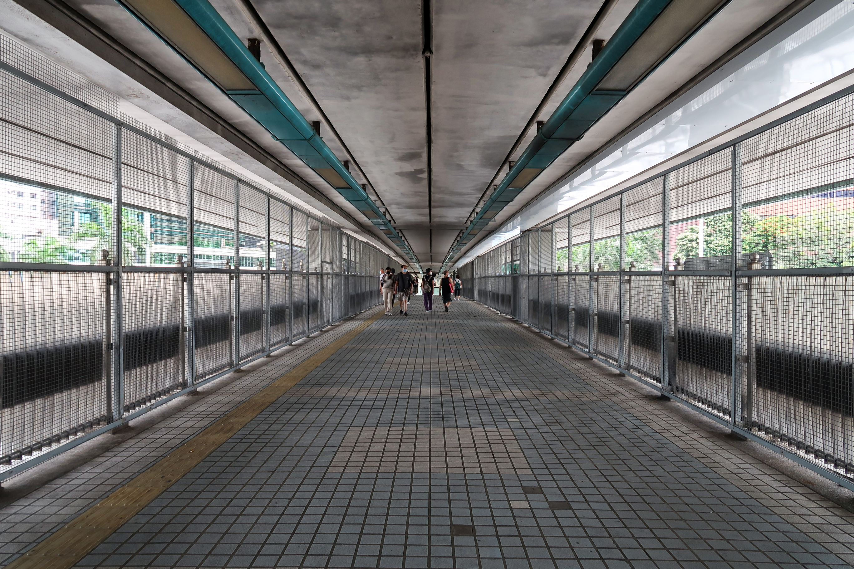 Cross Harbour Tunnel Bridge access fence